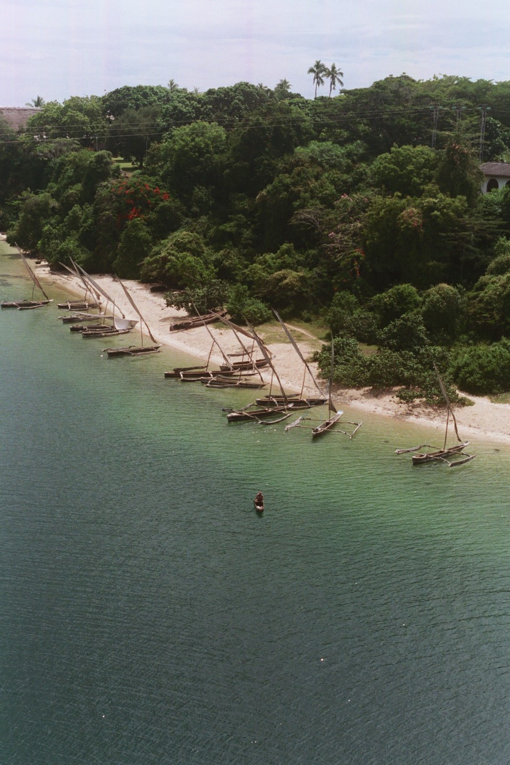 Dhows in Kilifi Creek, Kenya